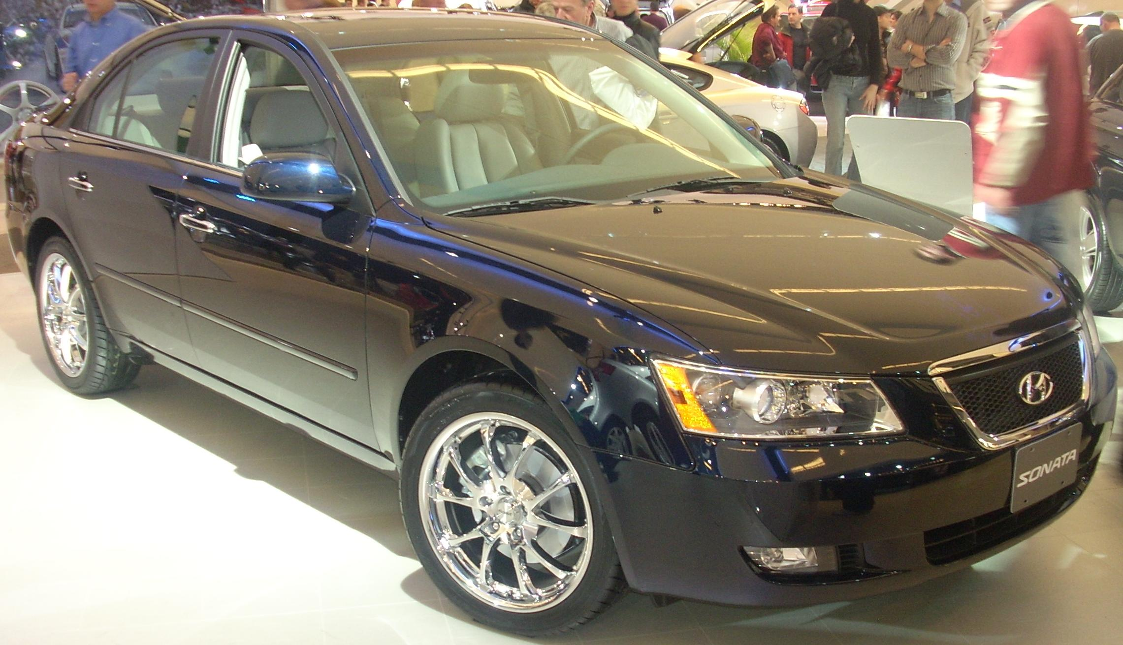 2008 Hyundai Sonata photographed at the Montreal Auto Show.